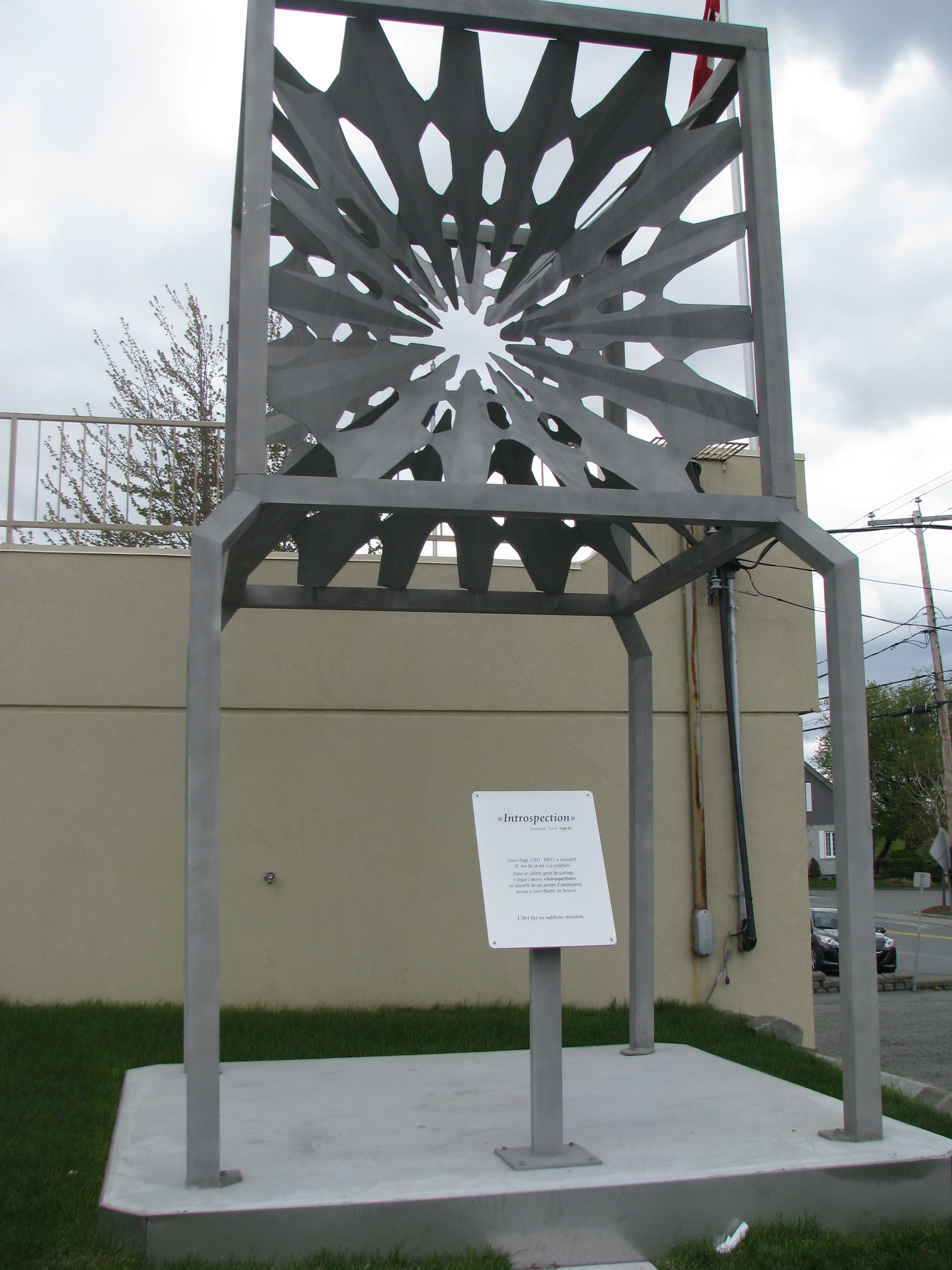 "Introspection", by Lewis Pagé, installed in Saint-Martin, Beauce, Québec, Canada